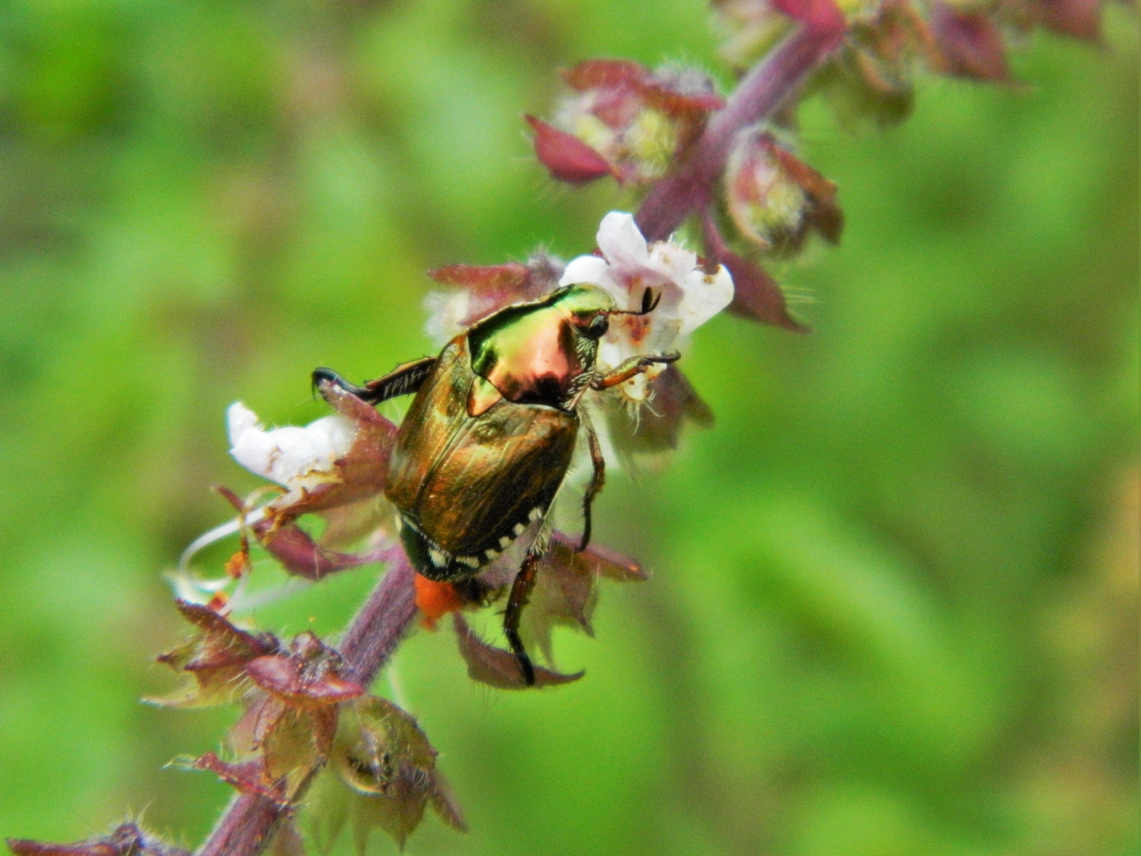 Popillia sp.